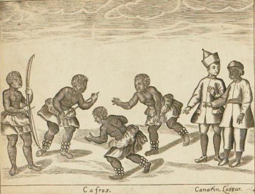 Detail of Carta Hydrographica y Chorographica de la Yslas Filipinas (1734) showing "Cafres" ("Kaffirs"), which are likely the Aeta people.